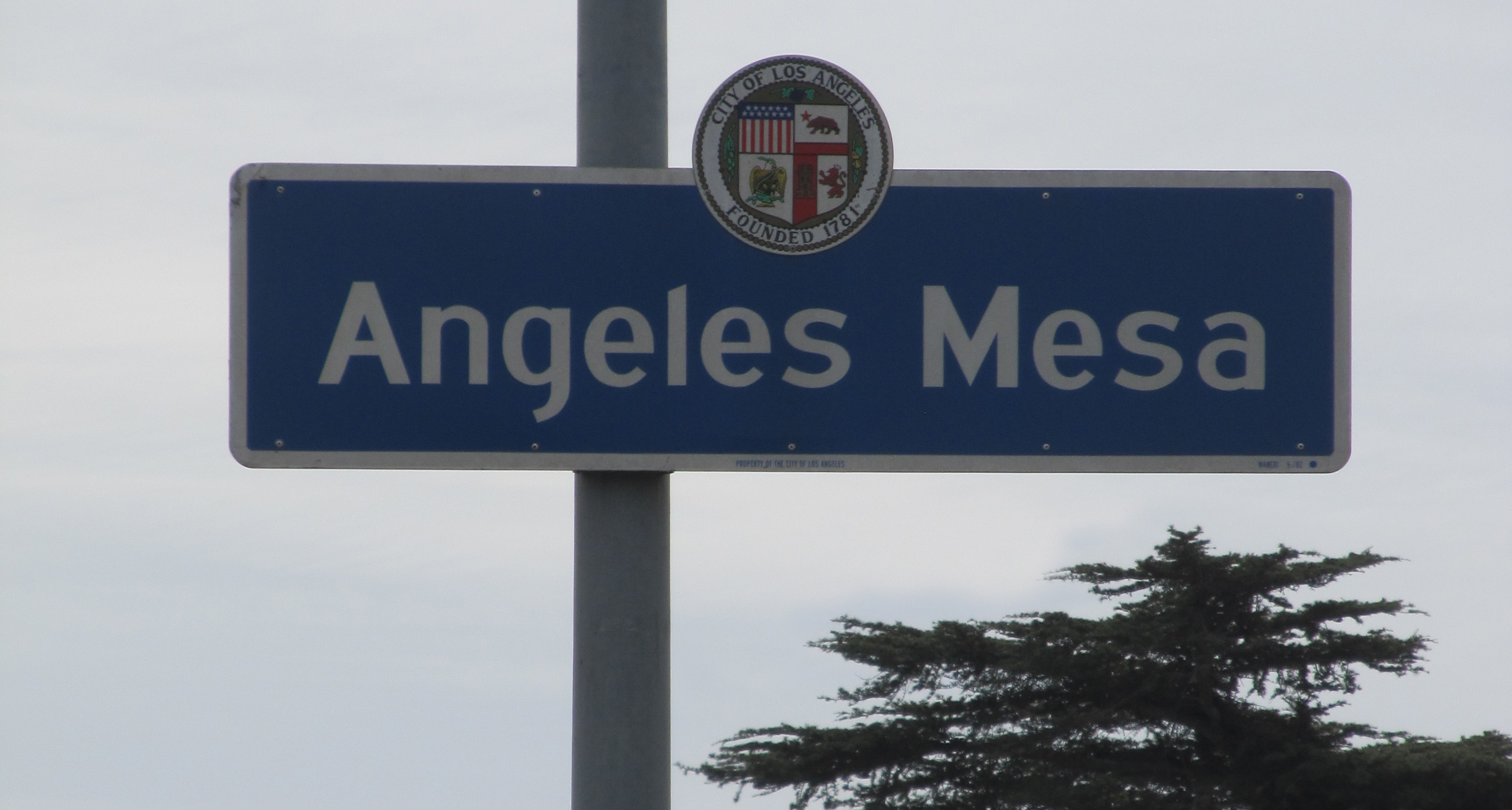 The sign is located at 4819 Arlington Avenue (Arlington Avenue and 48th Street)